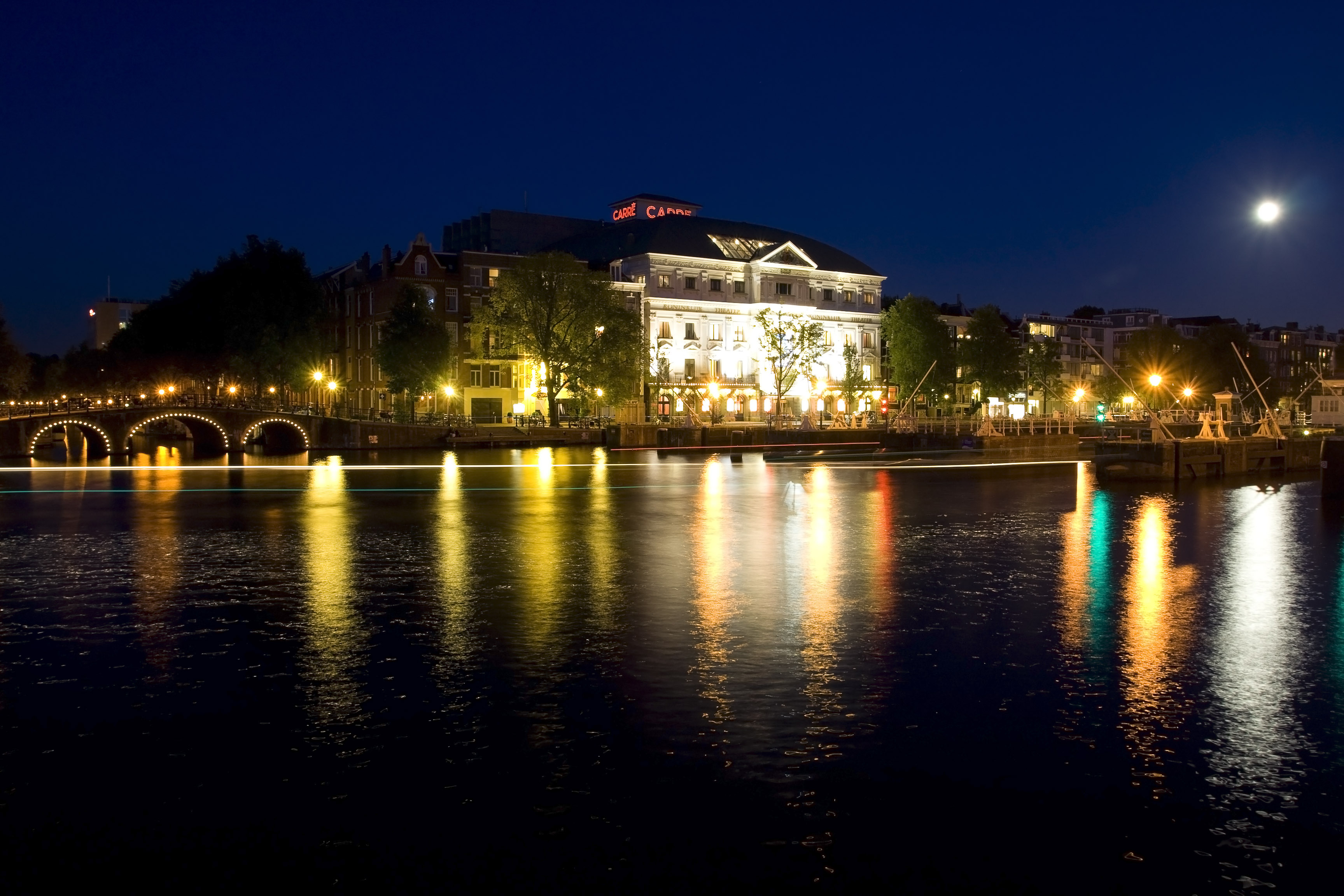 A view of the Carré Theater and the river Amstel in Amsterdam, The Netherlands by moonlight.